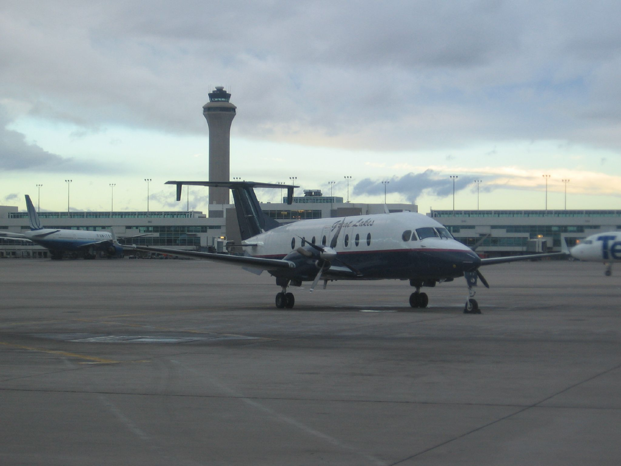 A Great Lakes Airlines Raytheon Beech 1900D Airliner at DIA.